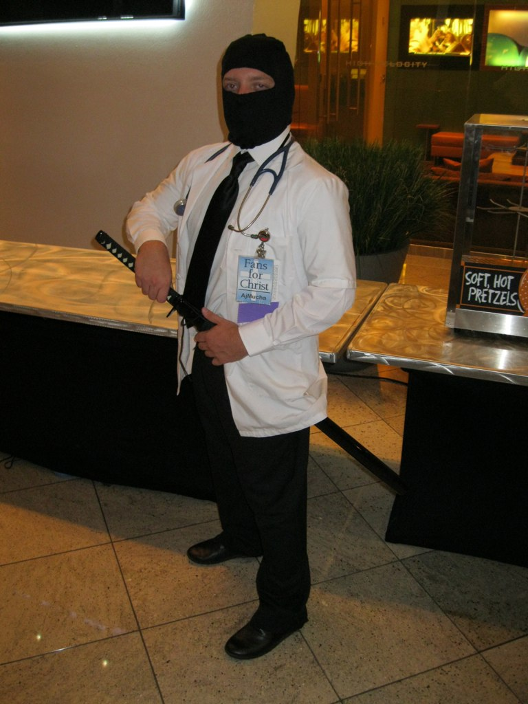 Someone cosplaying as webcomic character Dr. McNinja.